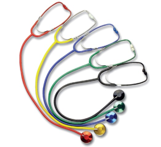 Colored dual head stethoscope